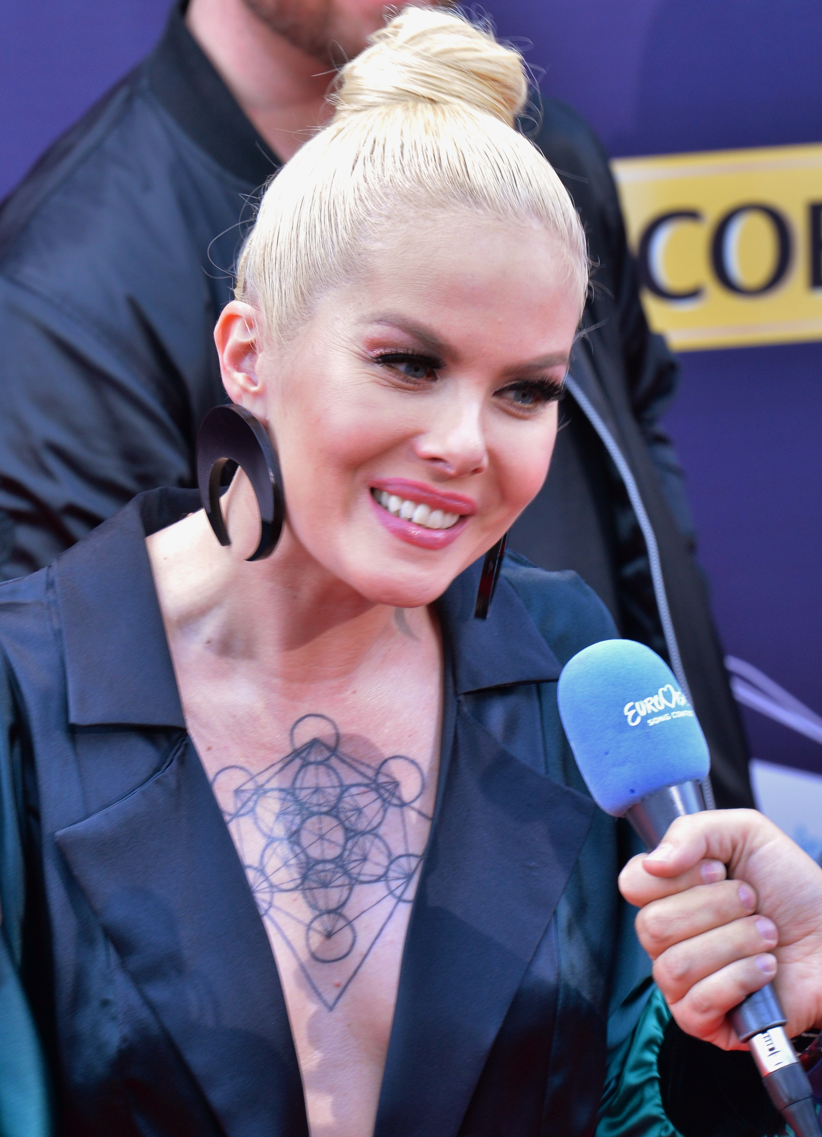 Islandian singer Svala Byörqvinsdottir on the Red Carpet Ceremony of the Eurovision 2017 Song Contest in Kyiv, Ukraine